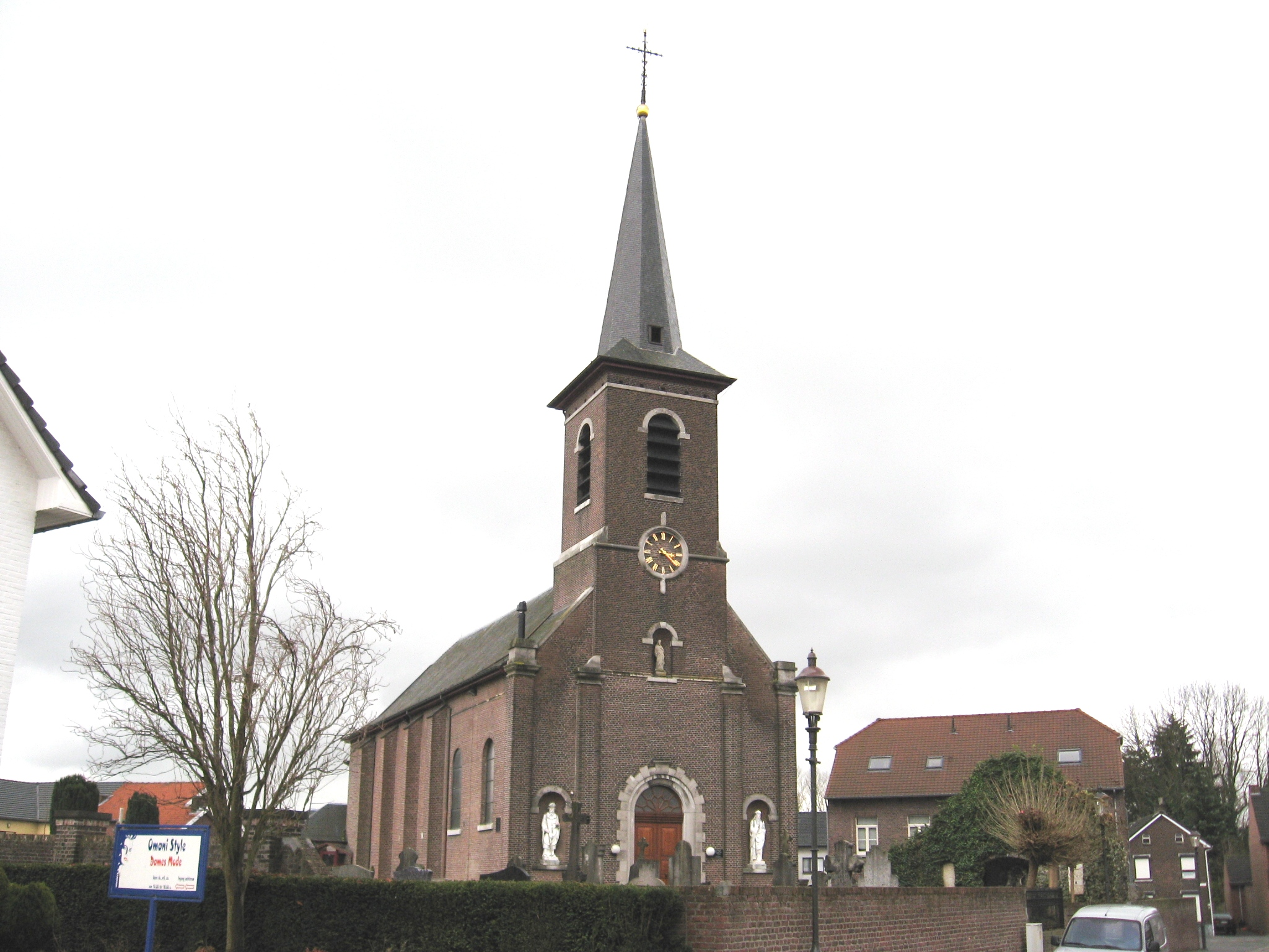 Church of Saint George in Boorsem, Maasmechelen, Limburg, Belgium